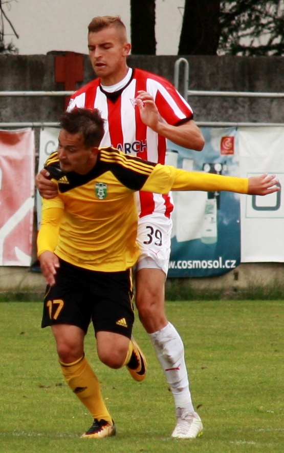 Michał Helik (white-red outfit) and Jan Suchan (black-yellow outfit) at a friendly footbal match between teams MFK Karviná-Cracovia in Dětmarovice, Czech Republic 23rd June 2018